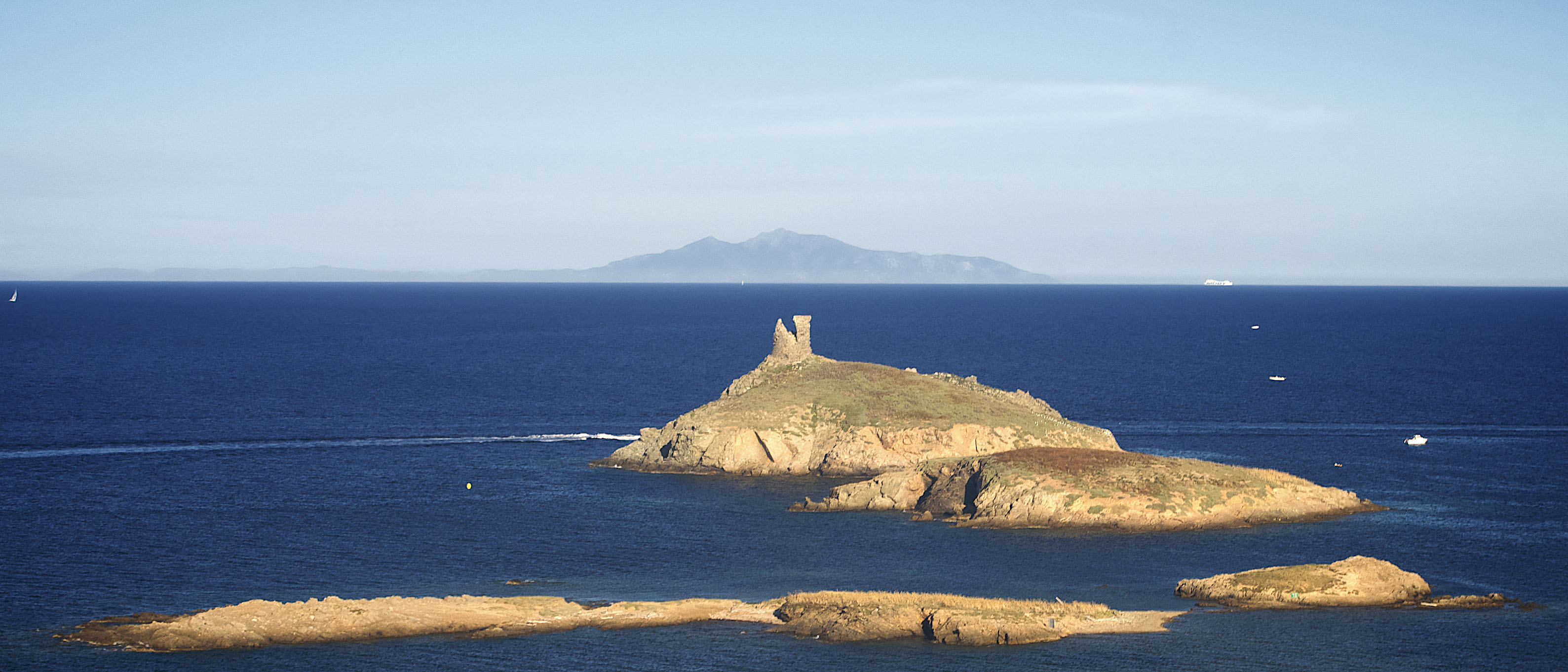 Natural reserve of Finocchiarola Islands